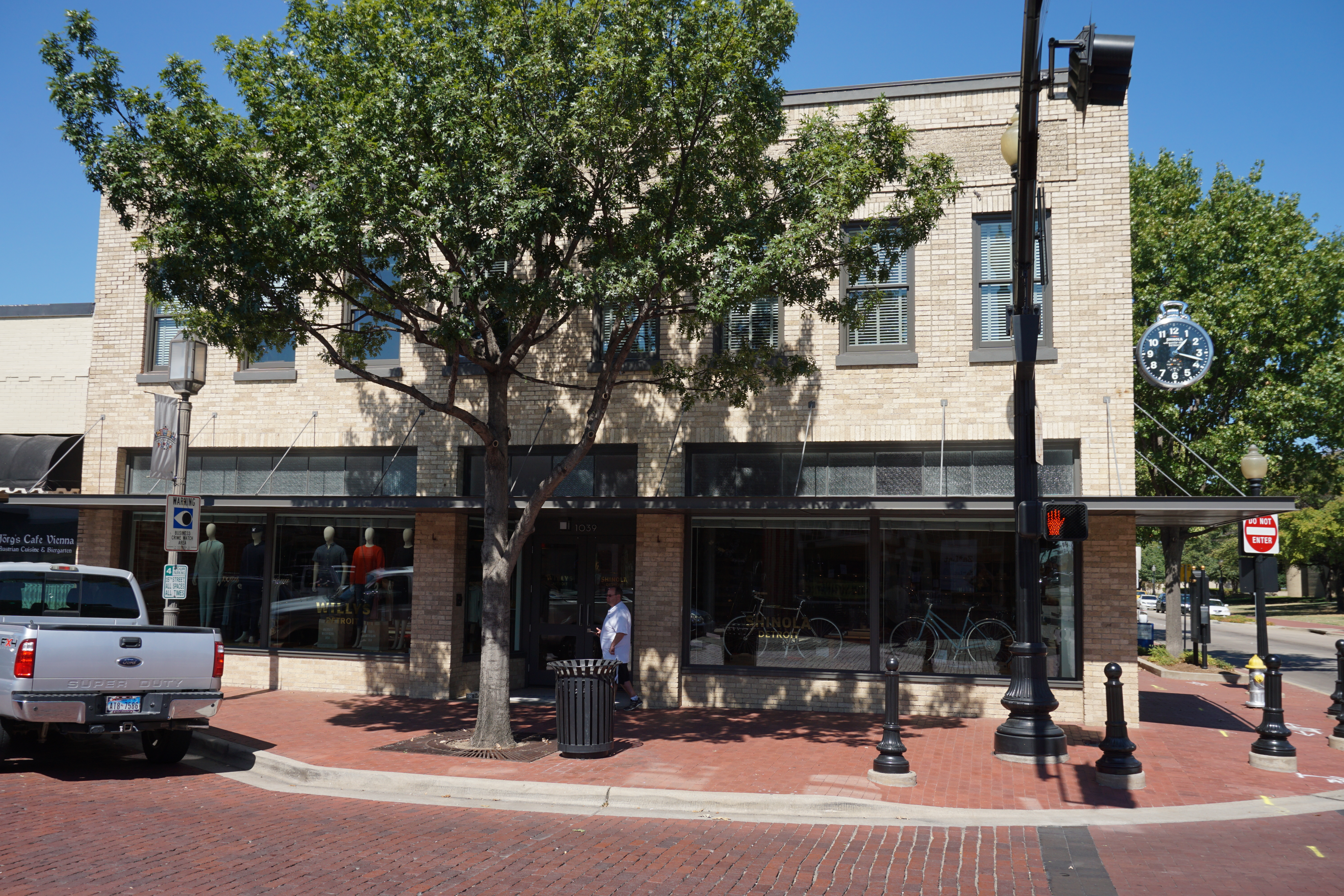 Shinola in Plano, Texas (United States).